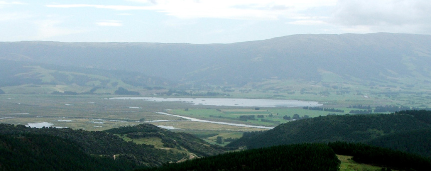 Lake Waipori and its surrounding wetlands, in South Otago, New Zealand. Photographed in January 2006